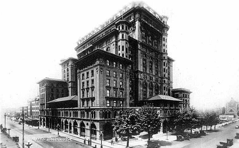 Hotel Vancouver, Vancouver, British Columbia, ca. 1923 Photographer: Unknown Subjects (LCSH): Hotel Vancouver (Vancouver, B.C.) Vancouver (B.C.)--Buildings, structures, etc. Digital Collection: Alaska, Western Canada and United States Collection Item Number: AWC2963 Persistent URL: Visit Special Collections reproductions and rights page for information on ordering a copy. University of Washington Libraries. Digital Collections